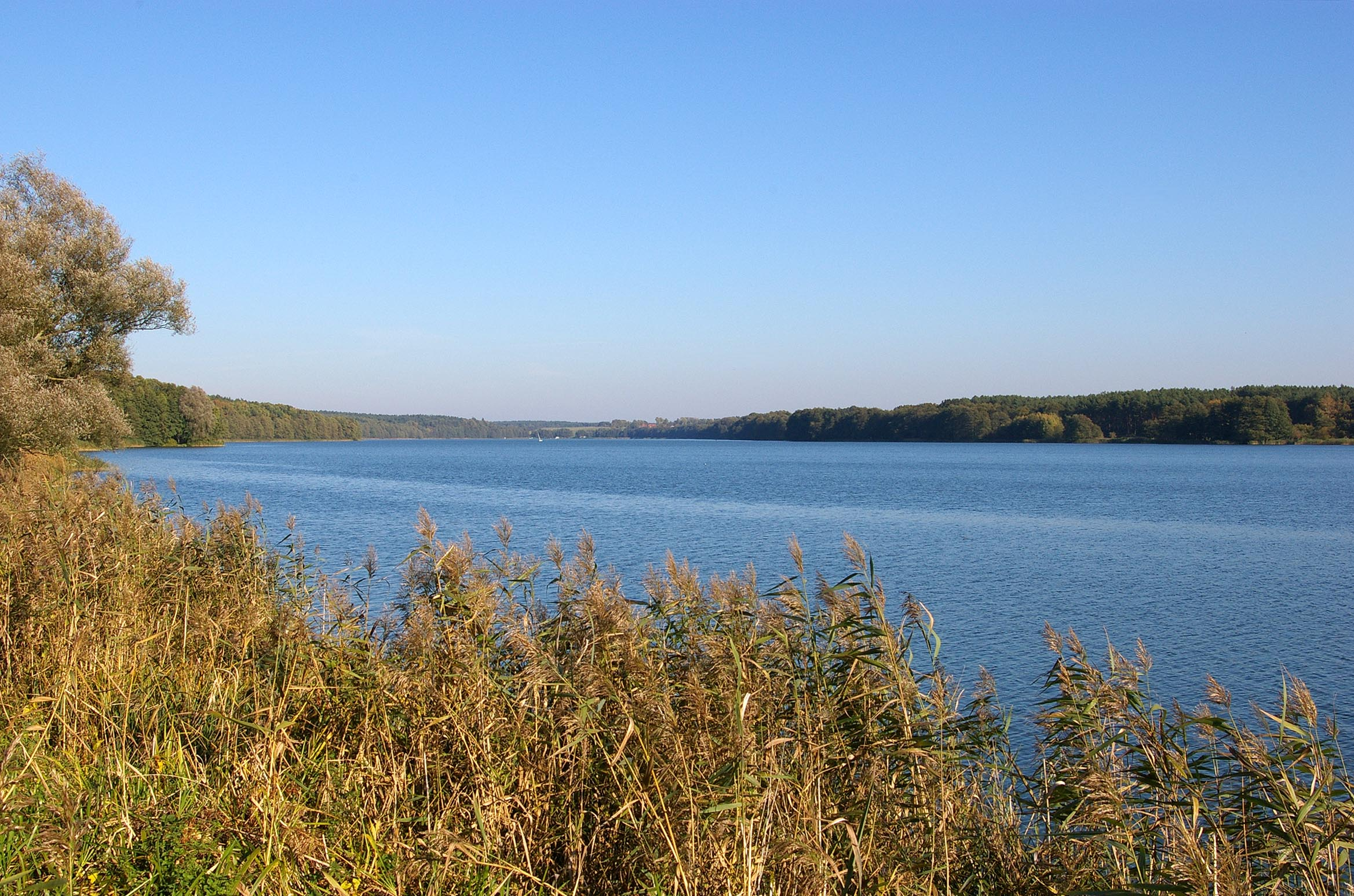 Rudower See ("Lake Rudow") in northern Germany.